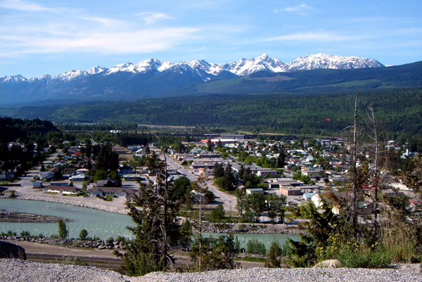 Picture of Golden, British Columbia, Canada